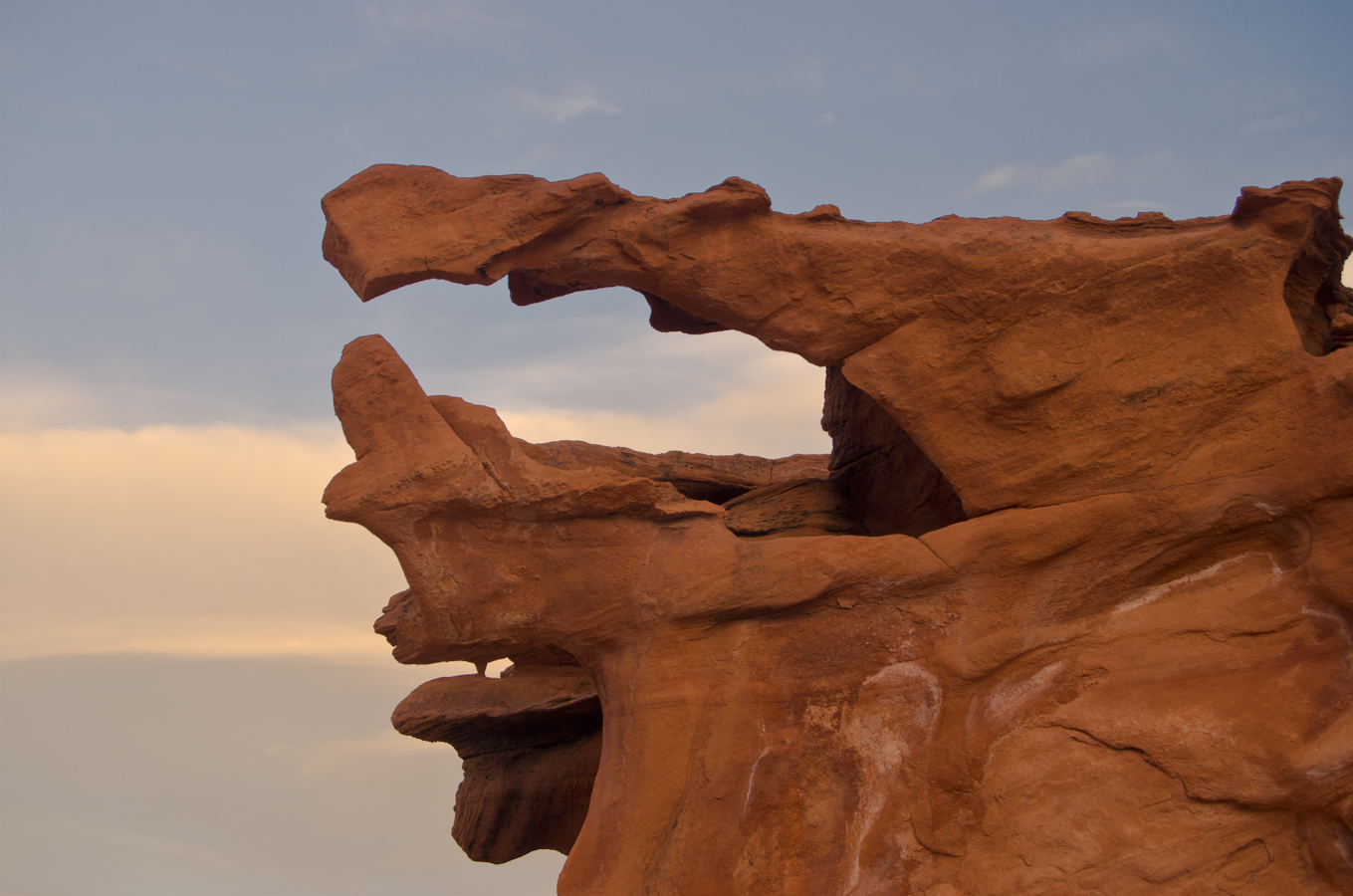 I have written a report of this trip ("Three Days in May") and posted it to my blog